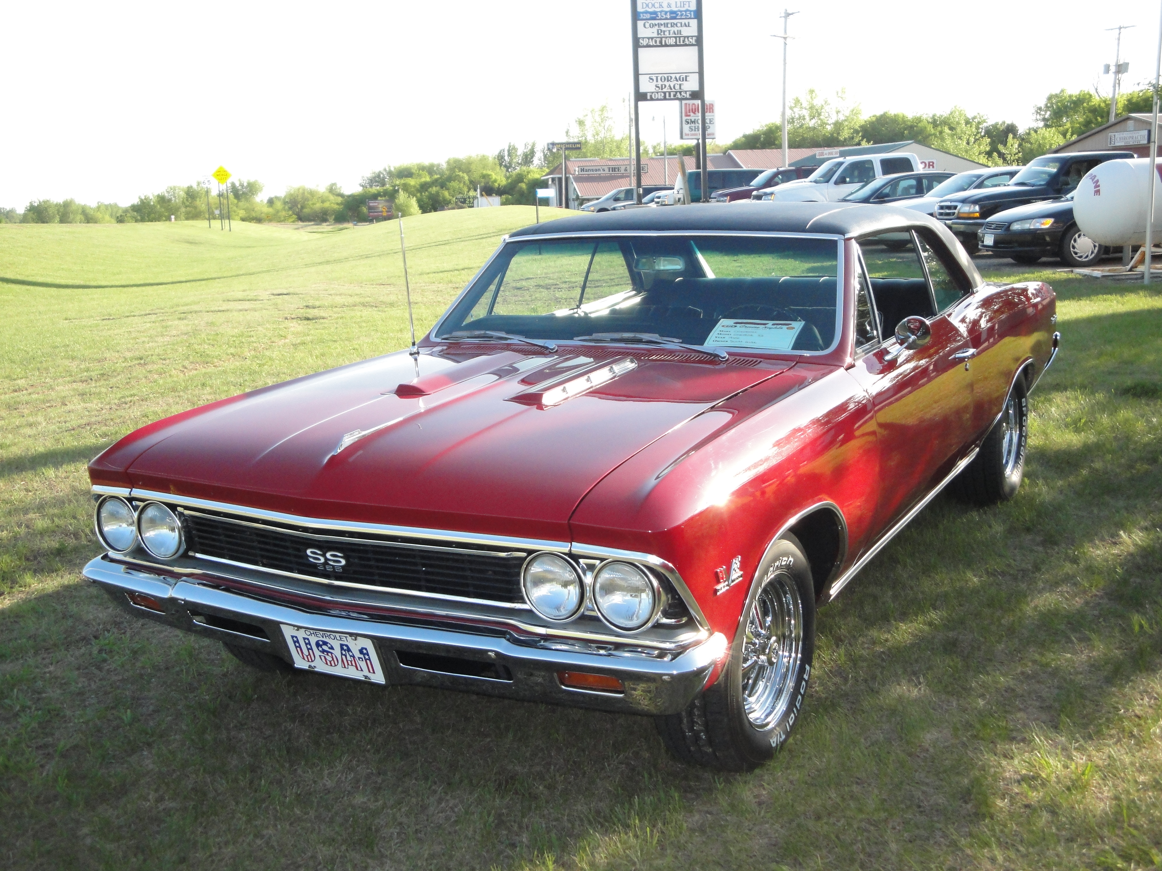 A&W Cruise Night May 2012 New London Minnesota